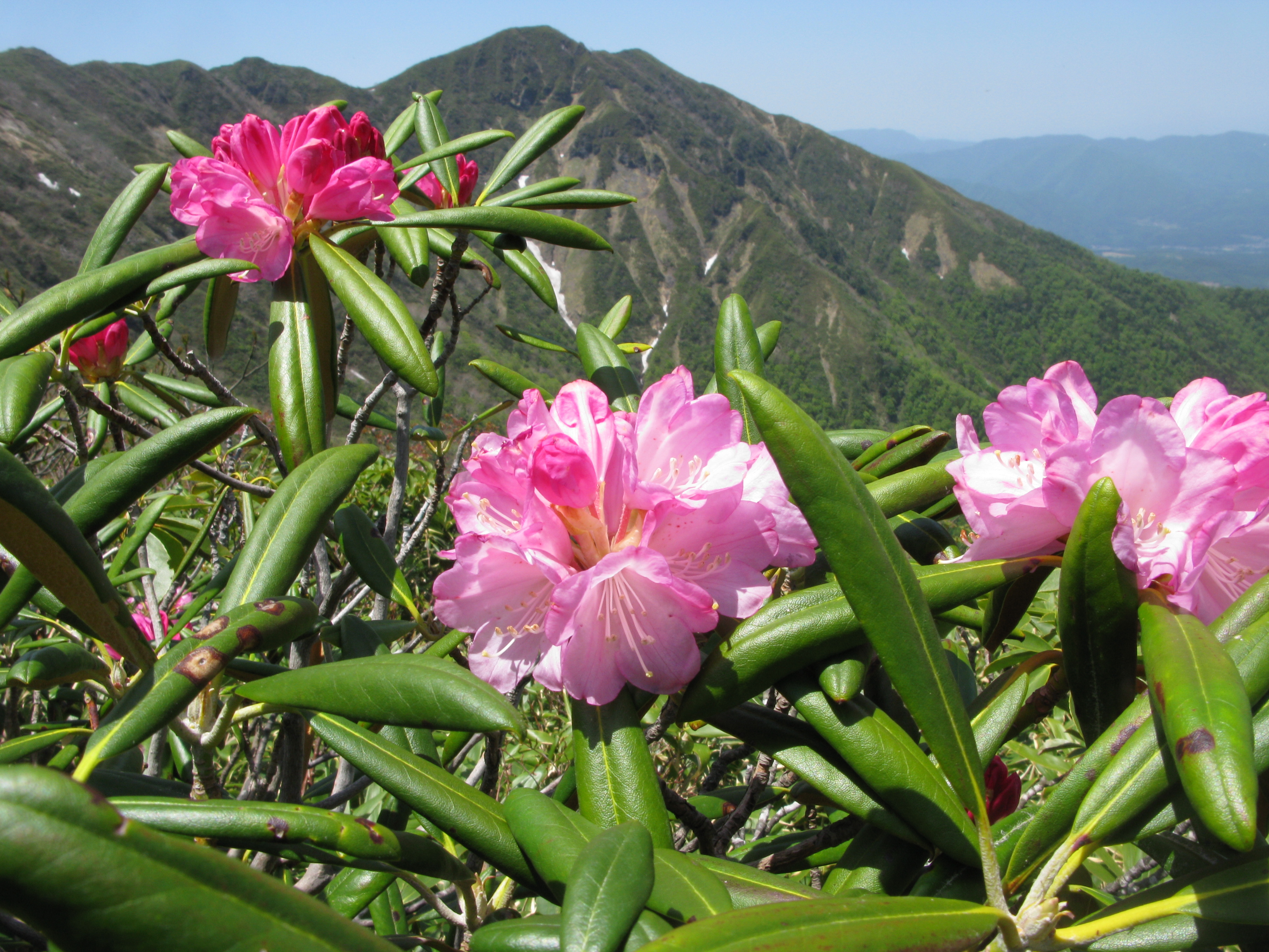 Rhododendron degronianum,Aizu area,Fukushima pref.,Japan